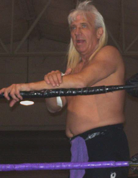 Ricky Morton. This is a copy of a picture I (GeekAngel) took at the PWF wrestling match on Thanksgiving night in TN.